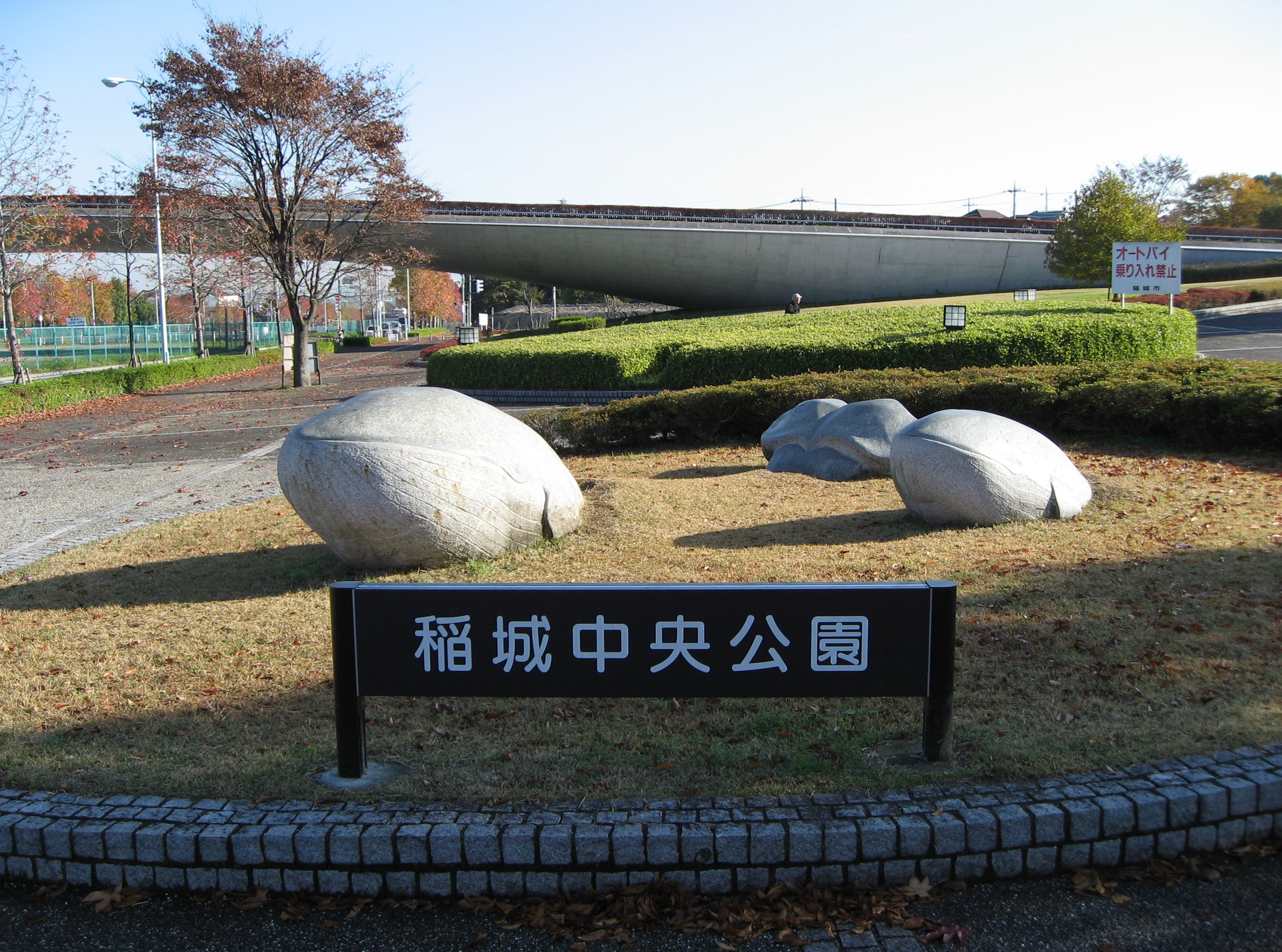 Sign of Inagi Chuo Park, Tokyo, Japan